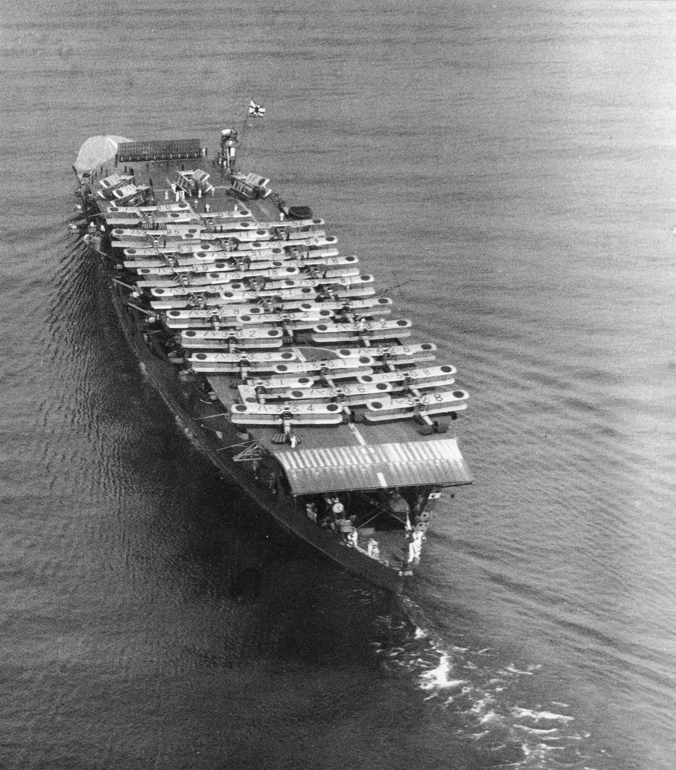 Imperial Japanese Navy aircraft carrier Akagi off Osaka. On deck are Mitsubishi B1M and B2M bombers.